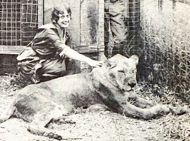 Screenshot of illustration in article "Favorite Pets of Favorite Players" from August 1915 issue of Picture-Play Weekly, pp. 26-27, showing actress-screenwriter-director Grace Cunard petting a lioness in its enclosure at the Universal Ranch in California; original caption to this image reads, "Grace Cunard and one of her animal friends. Miss Cunard is the only person who could approach this lioness. A keeper was killed when he entered the cage with it."